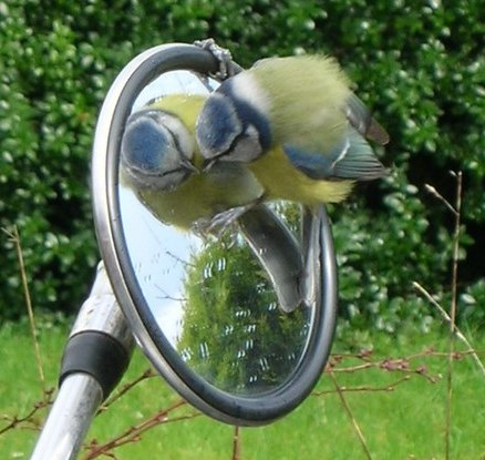 Bird on Bike. Taken one wet afternoon in Clarina Co. Limerick. The bird is a Blue Tit (Parus caeruleus).